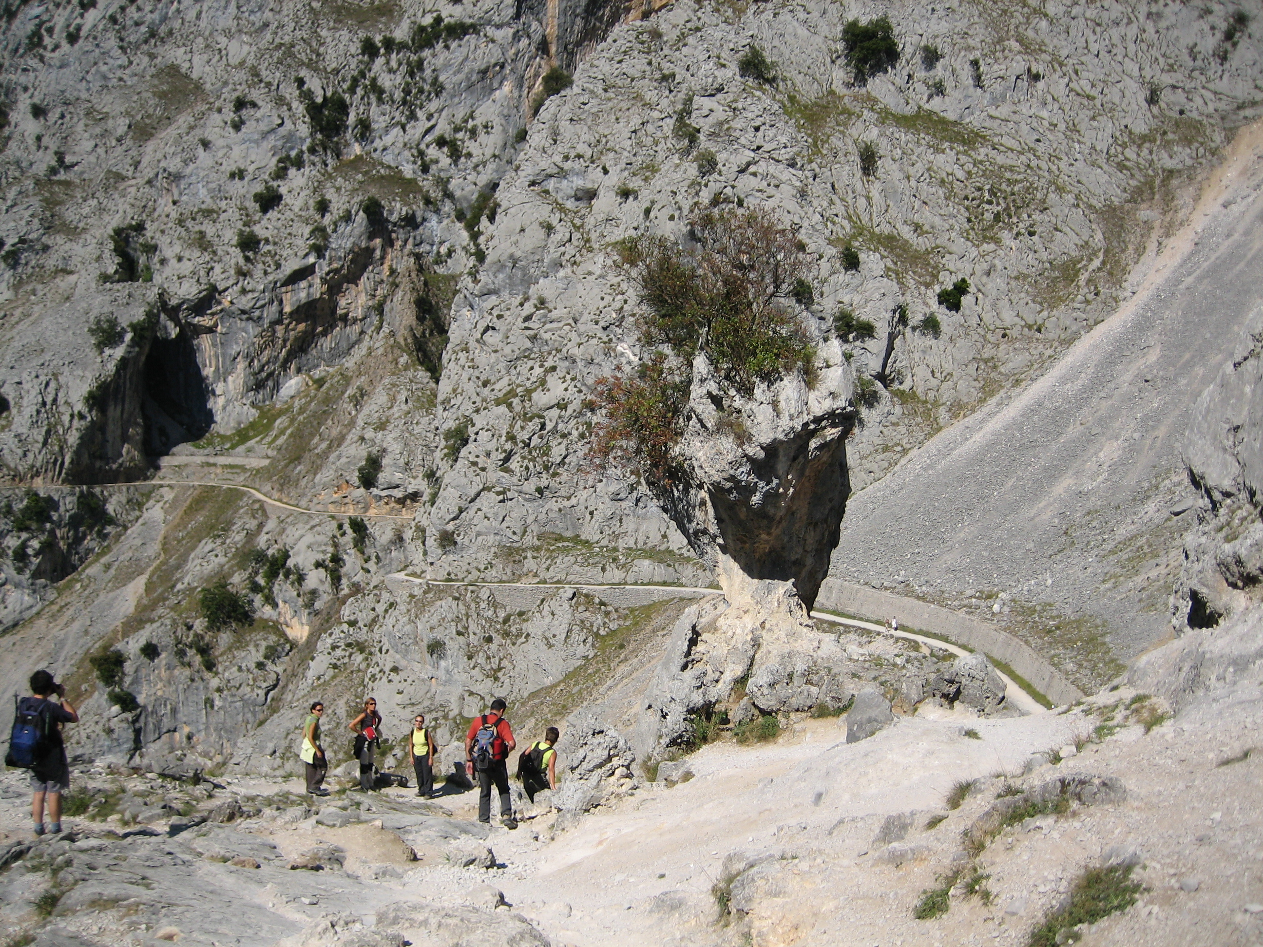 Picture of the Ruta del Cares